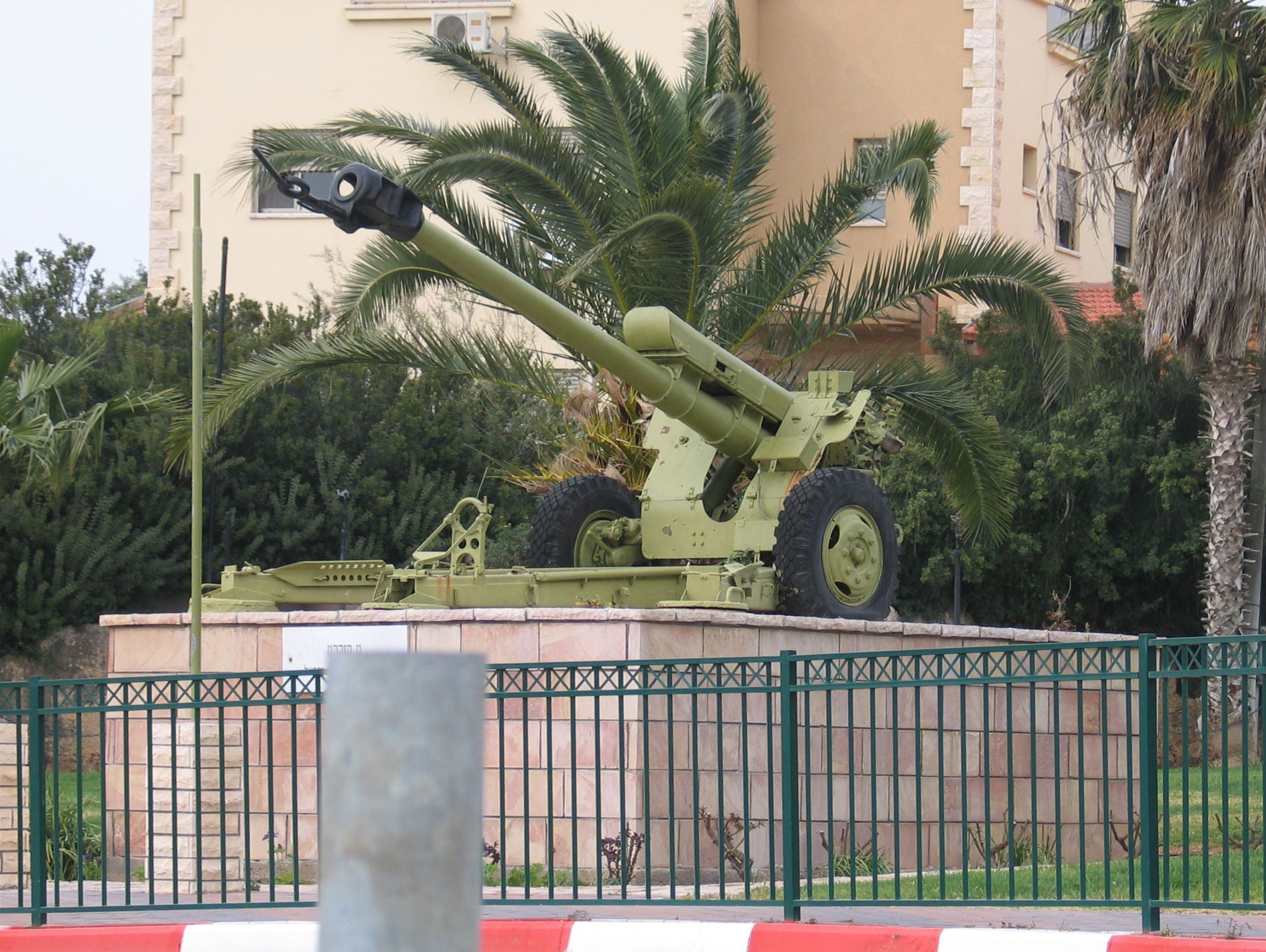 Soviet 122 mm howitzer D-30 installed as a memorial piece in Atlit, Israel.